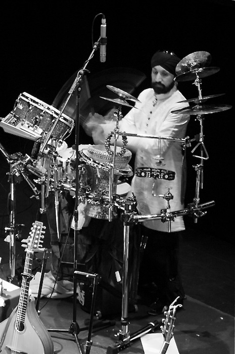 Johnny Kalsi performing with The Imagined Village @ The Big Chill Festival 2008 © Mark A Bennett [Photographer]